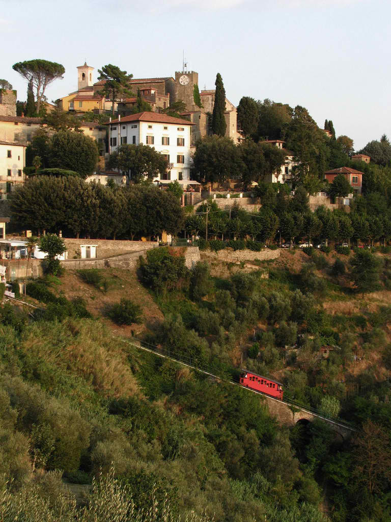 Funicular on its way up to Montecatini Alto at sunset